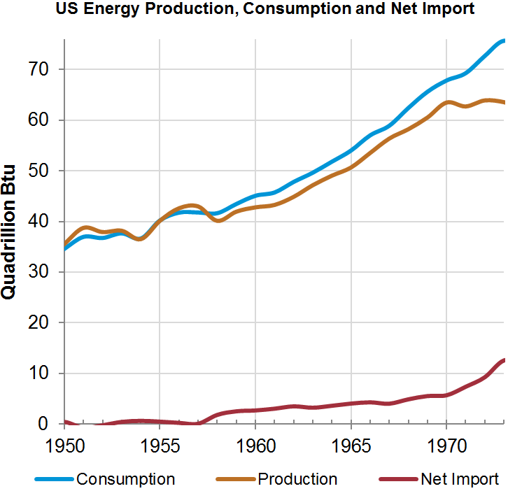 US Energy Production, Consumption and Net Import 1950-1973 Data from Energy Information Administration Annual Energy Review